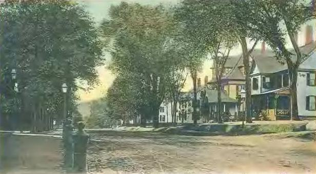 Main Street, looking east, Pittsfield, NH; from a 1906 postcard.